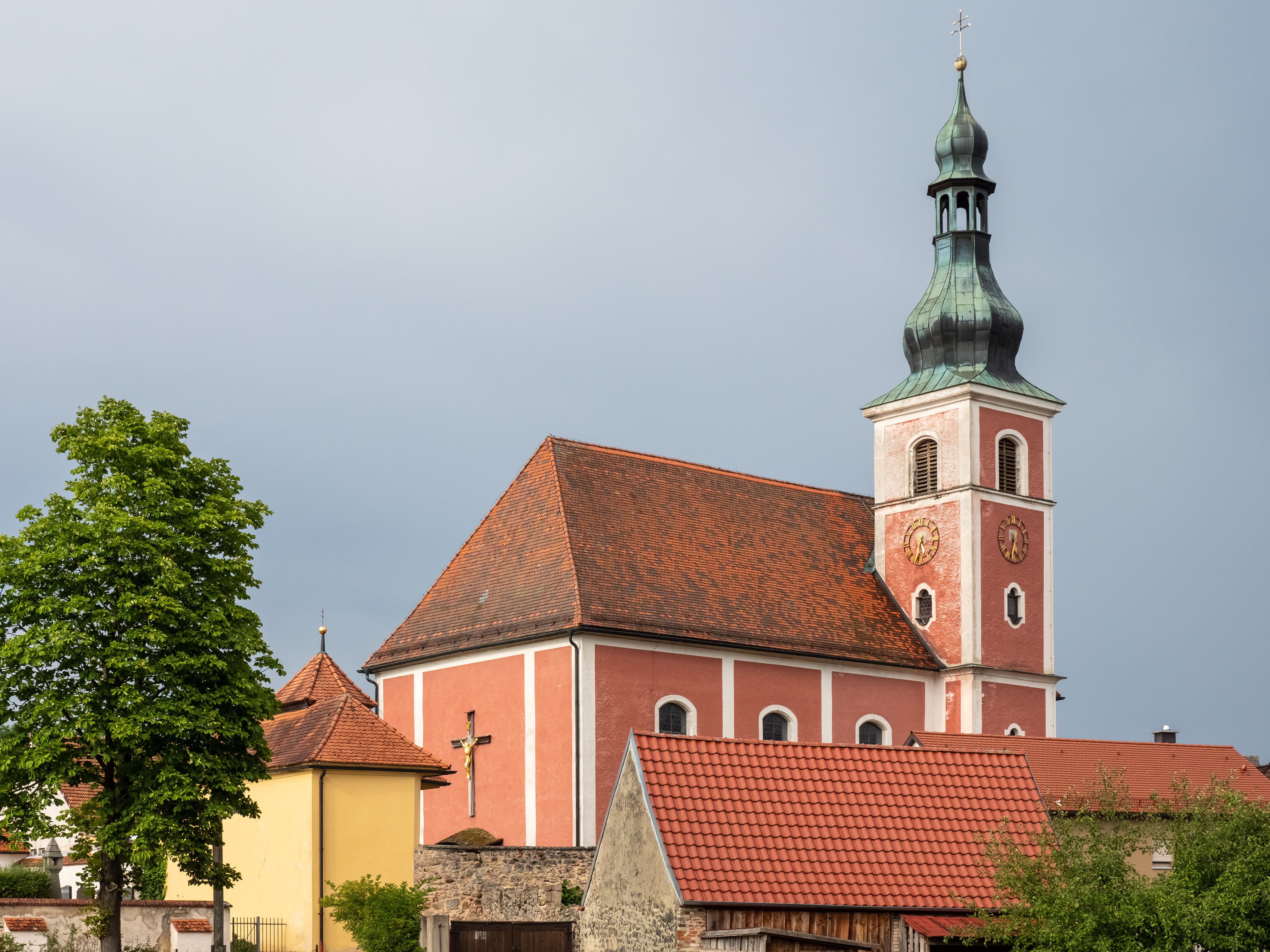 St. Johannes the Baptist in Auerbach in the Upper Palatinate